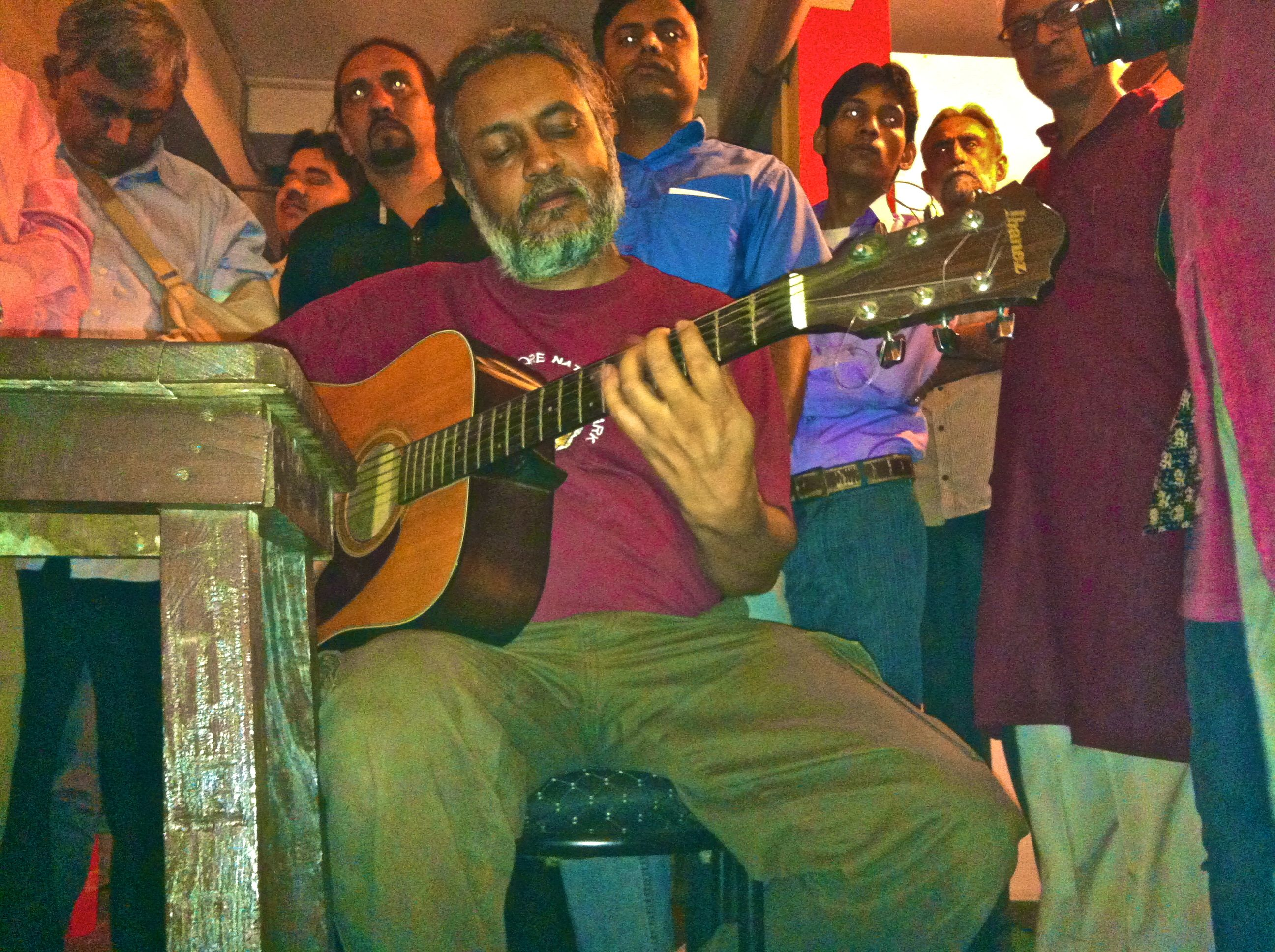 ରାହୁଲ ରାମ, ଇଣ୍ଦିଆନ ଓସନ ବ୍ୟାଣ୍ଡର ଗିଟାର ବାଦକ । ଓଡ଼ିଆ: Rahul Ram, bass guitarist, Indian Ocean, India. This media file is uploaded with Odia loves Wikipedia